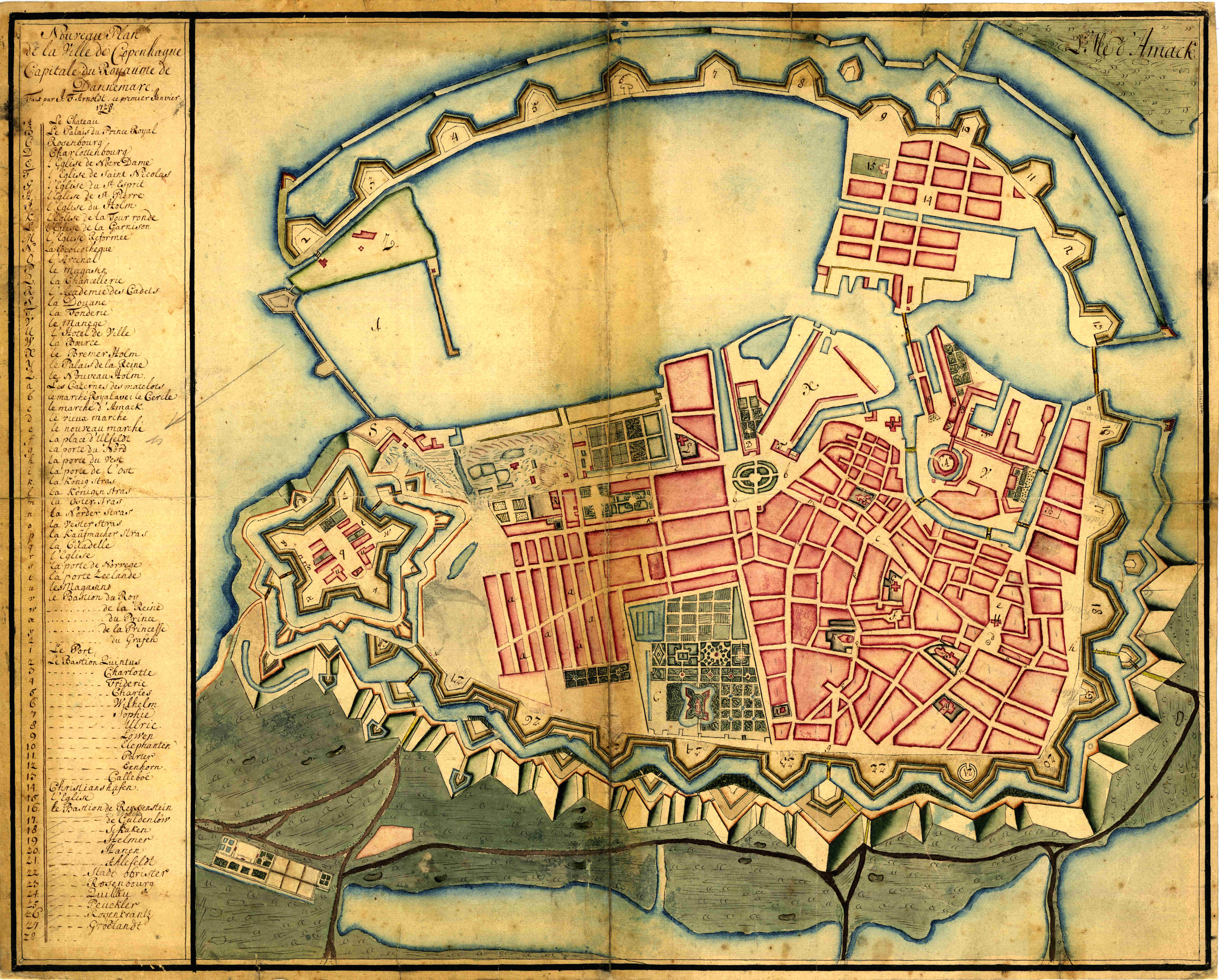 Map of Copenhagen by J. F. Arnoldt, January 1728.